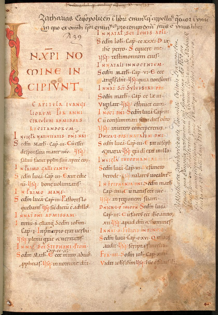 Facsimile of the Evangeliarium Zabrdovicense from the Research Library in Olomouc (M II 74), 11th century, manuscript on the parchment written in latin. Folio 0001r.